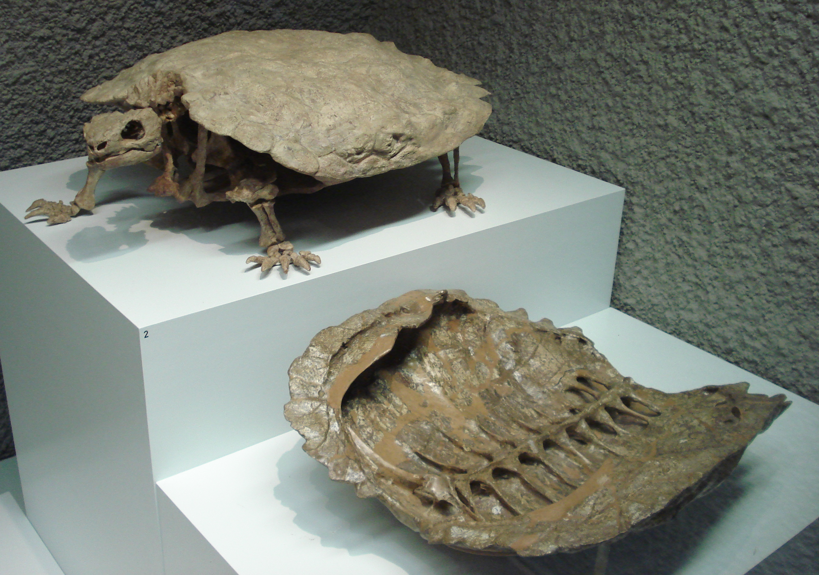 fossil of proganochelys